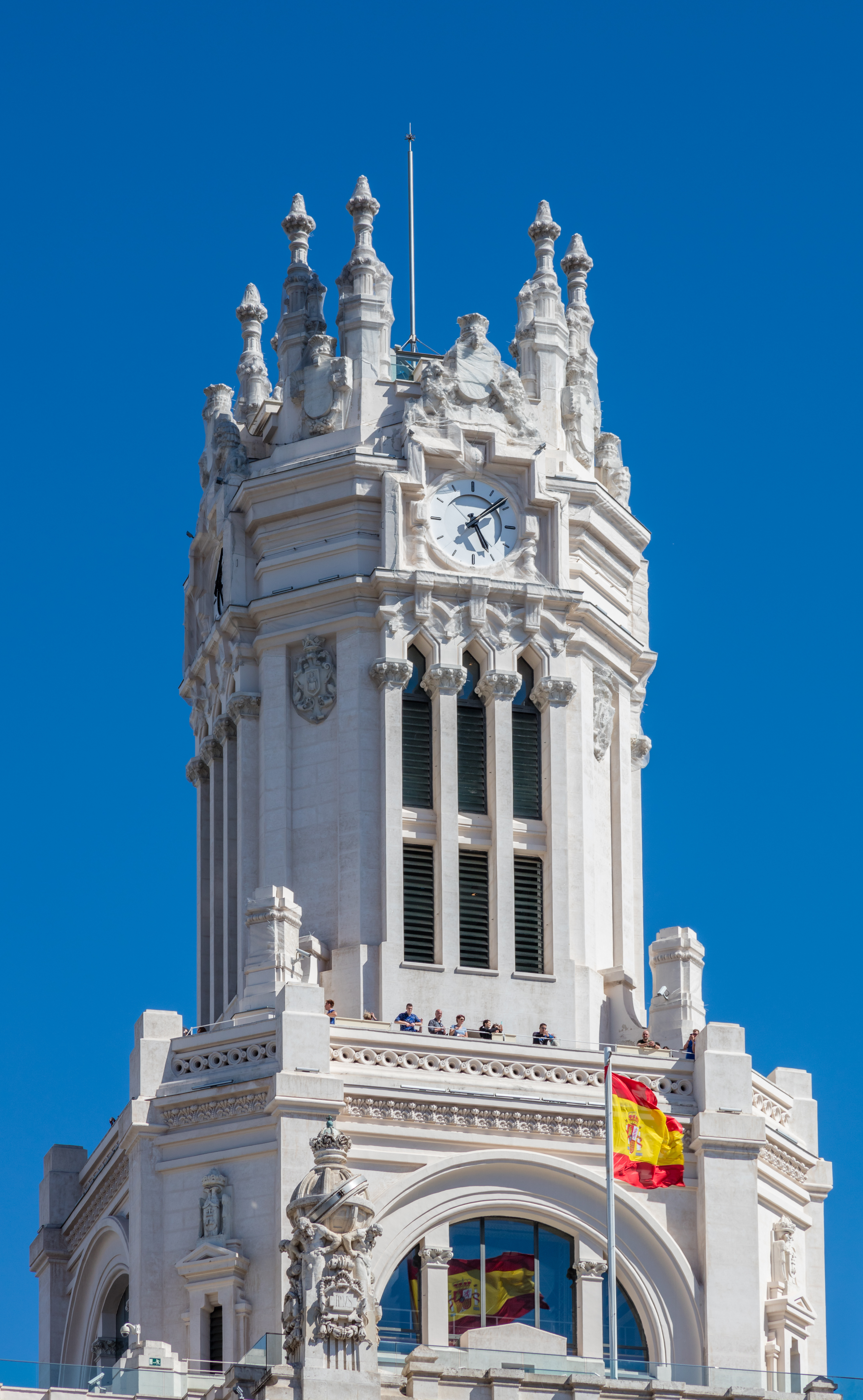 Communications Palace, Cybele Square, Madrid, Spain